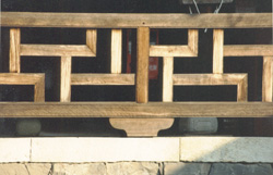 Mampukuji Balustrade I took this photo; date unknown. I contribute it to the public domain.